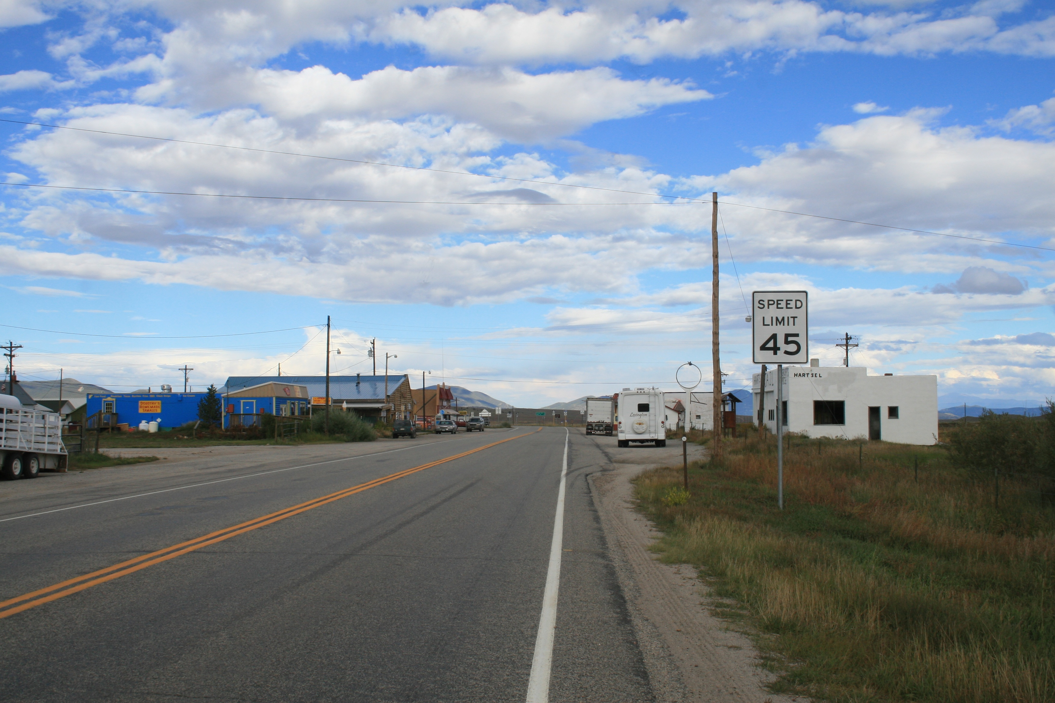 Hartsel, Park County, Colorado U.S. Route 24 in east direction at Hartsel